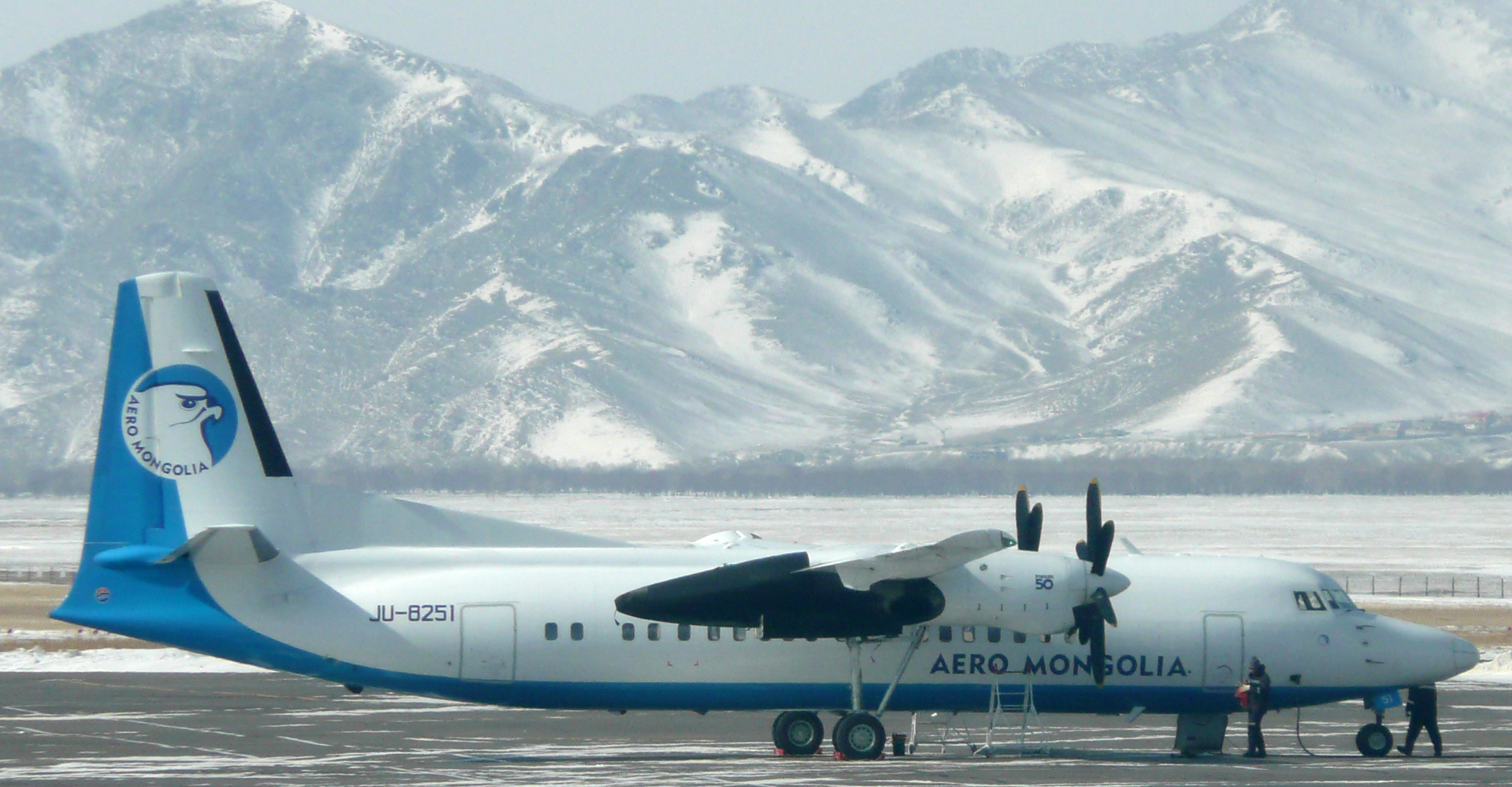 Aircrft Aero Mongolia in Ulan Bator